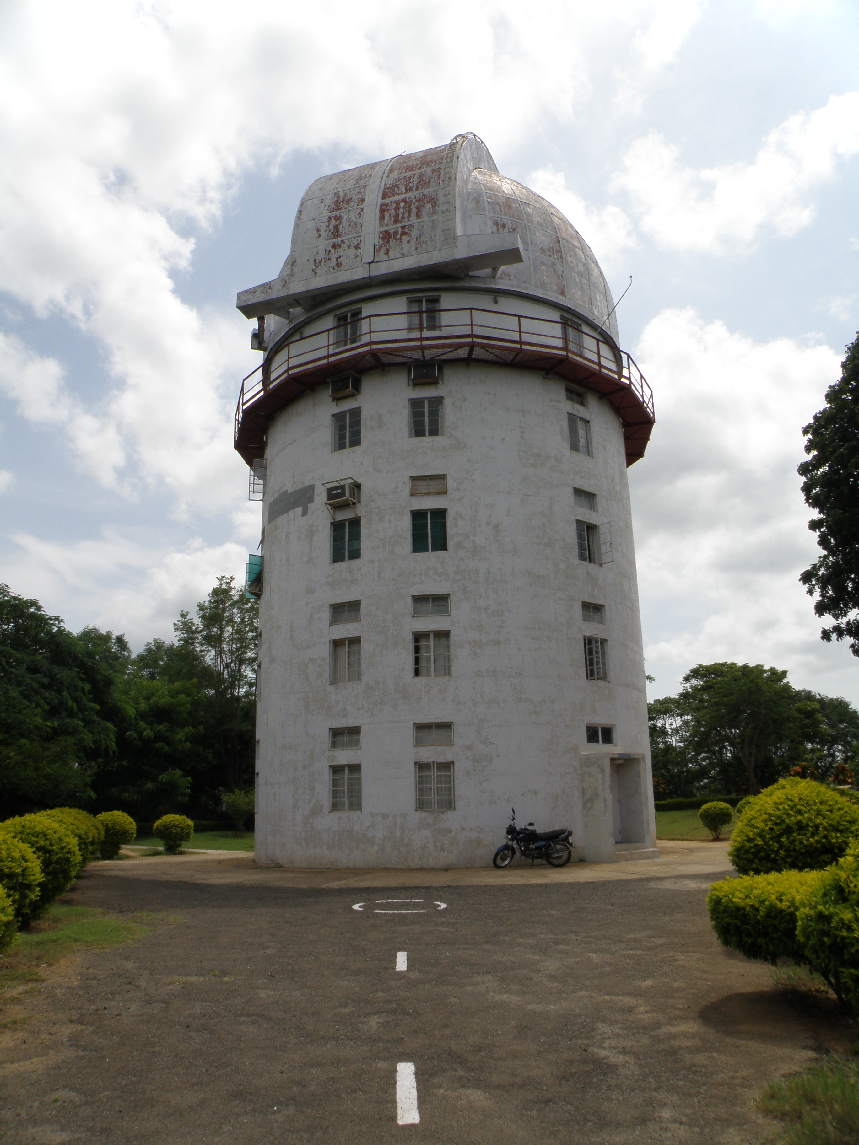 40-inch telescope building at Vainu Bappu Observatory.